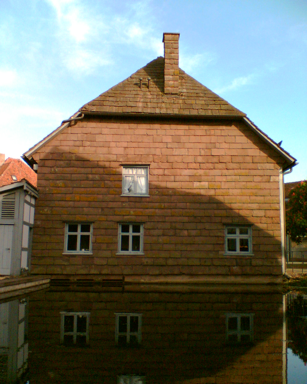 historic forge, D-37586 Dassel, Teichplatz 2